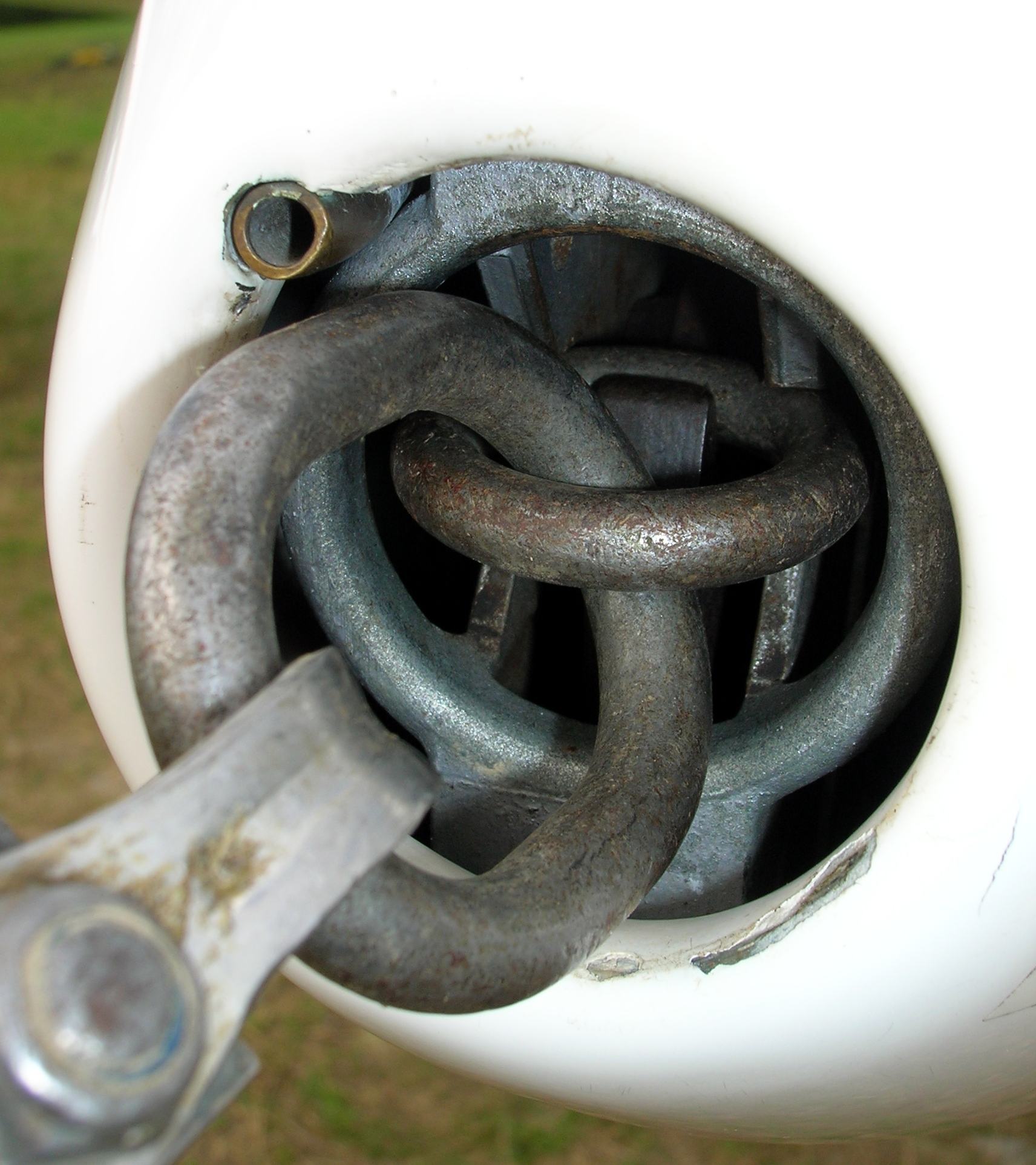 Nose-mounted tow hook of a Grob G 103 TWIN III with attached towing-rope.